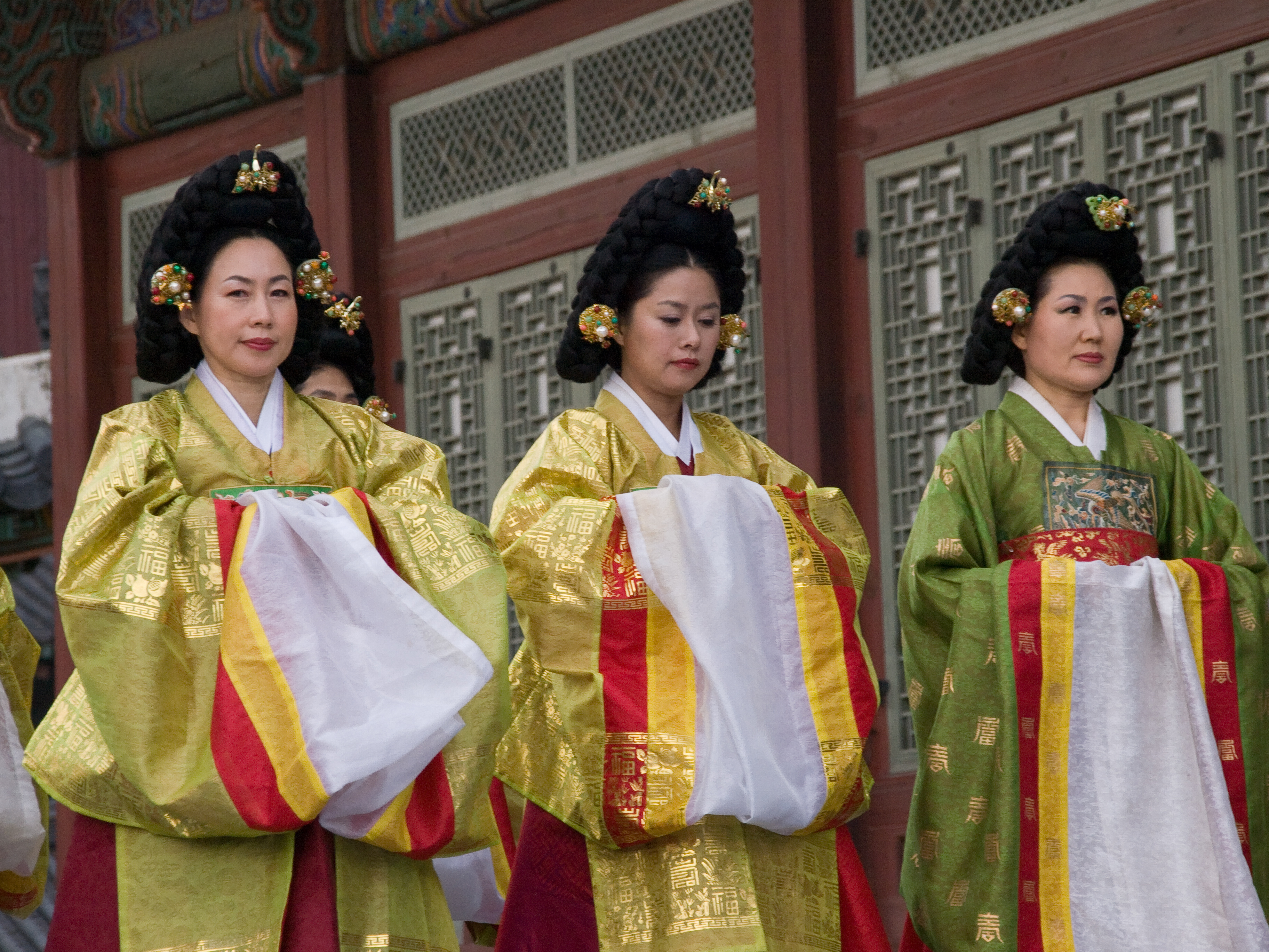 The 8th Chinjamrye reconstruction festival of Joseon dynasty was held on Nov. 17 2007 at Gangryeongjeon, Gyeongbokgung (royal palace) located in Seoul, South Korea. Chinjamrye was a big royal court event during Joseon dynasty for queens to encourage silk production to people. Queens relegated the event and represented to raise silkworms along with all well known ladies among royalty and nobility.